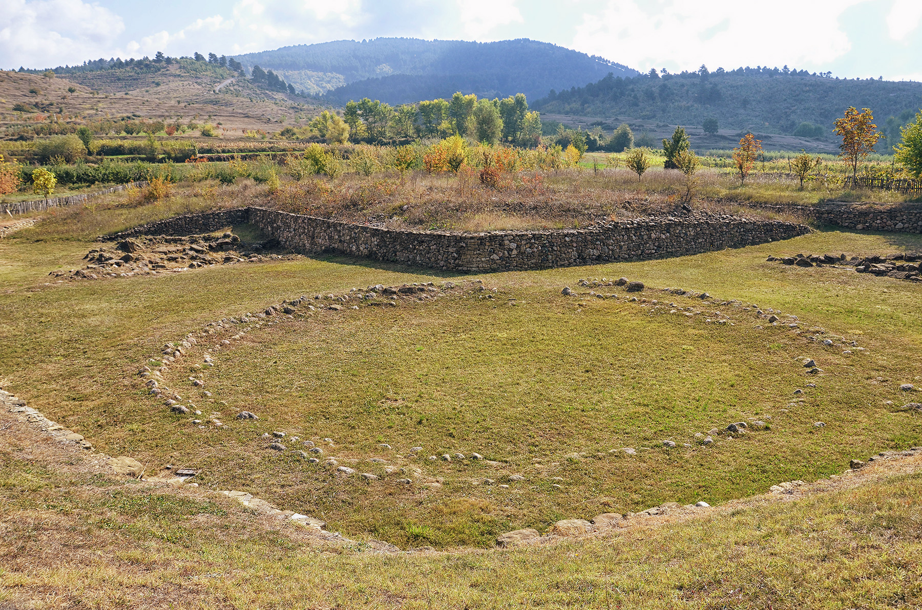 The first grave of the Kamenicë Tumulus, Albania from the late Bronze Age, within two concentric circles of stones